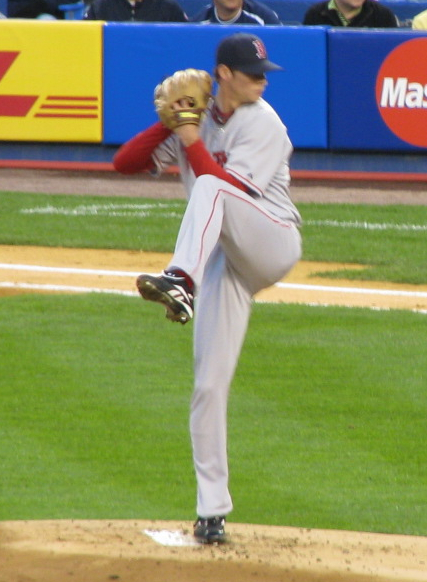 No no-hitter today for Buchholz. He struggled early and didn't make it through the 4th inning.